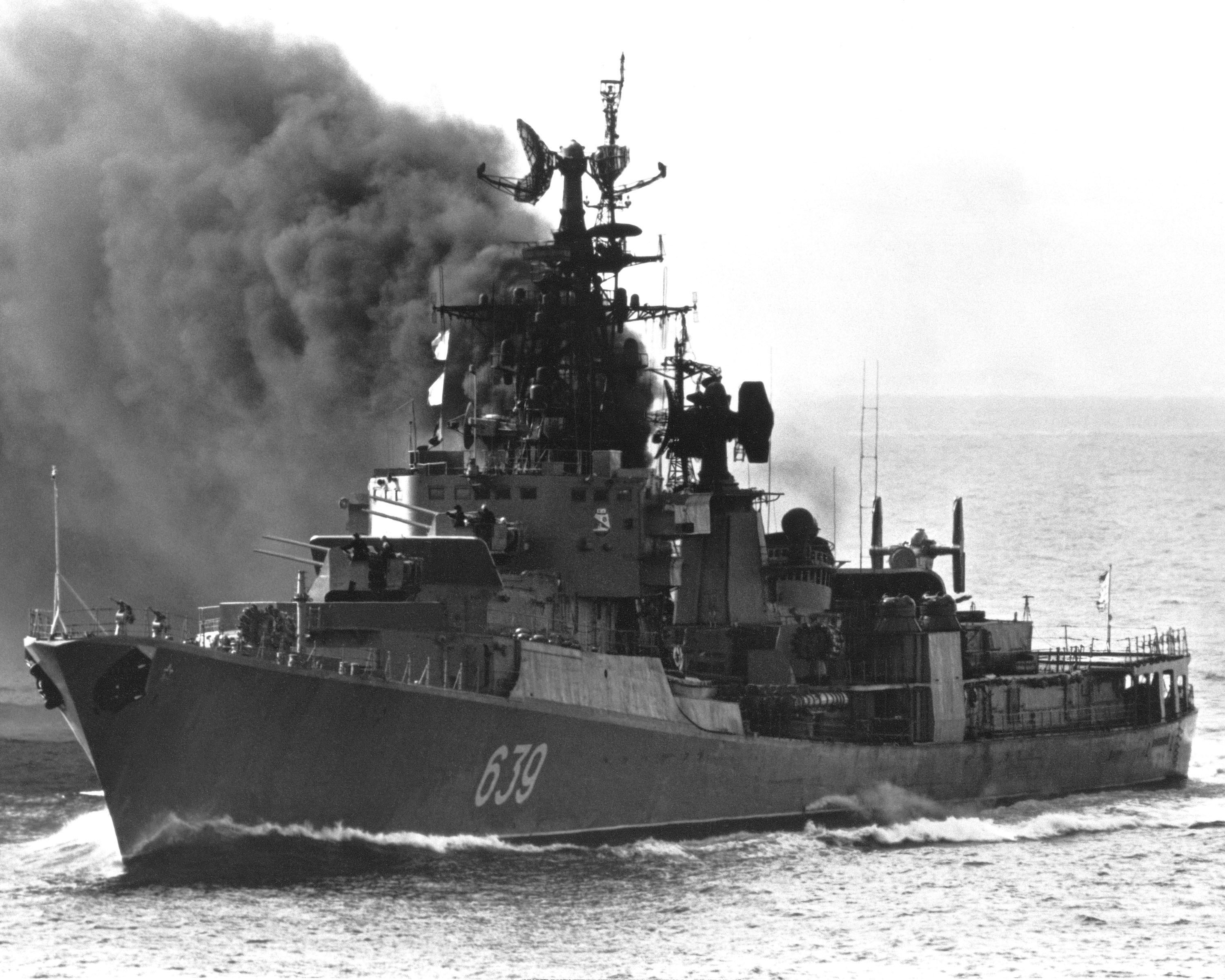 A port bow view of the Soviet Project 57A (Kanin) class destroyer Gremyashchiy following the launch of a missile.